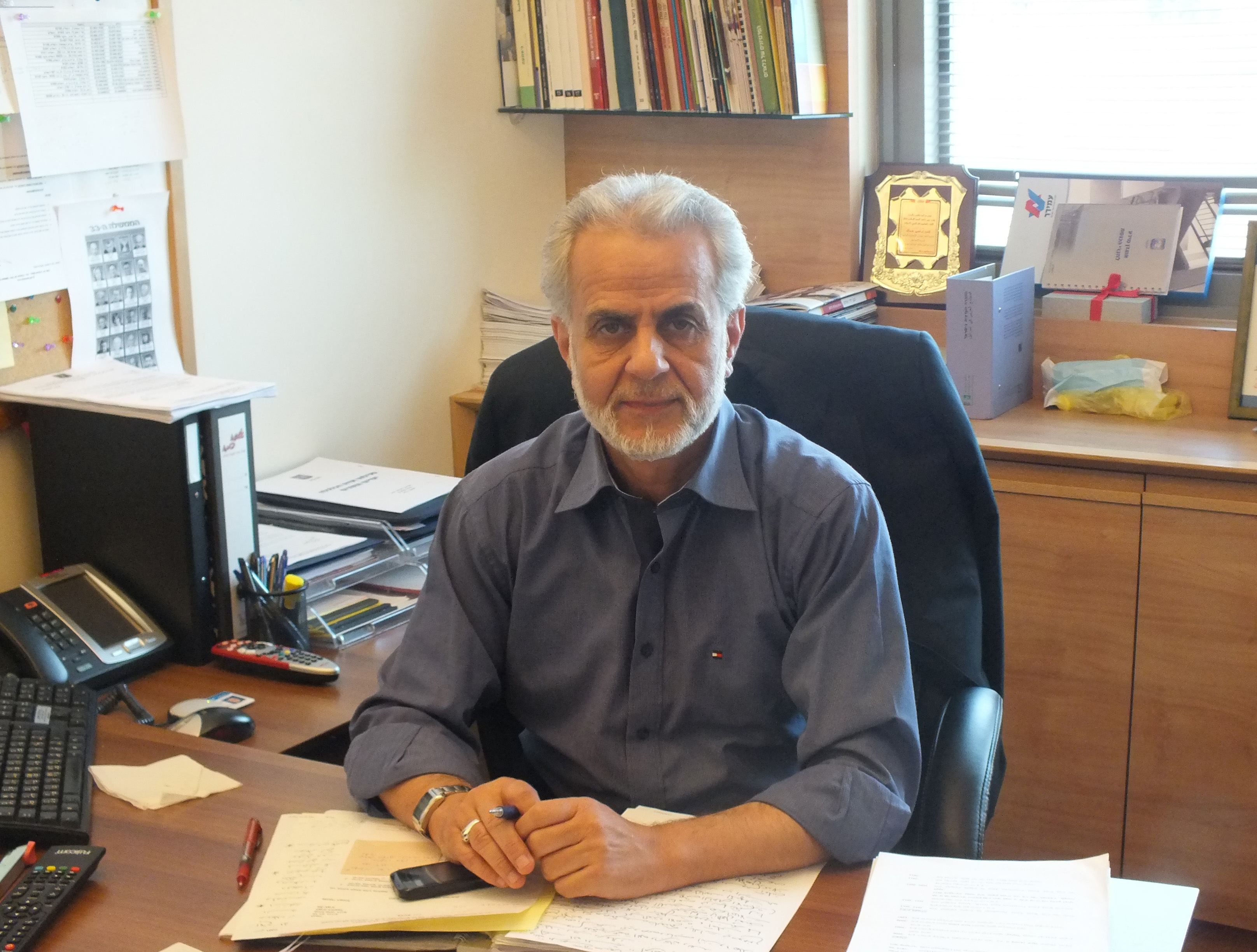 Ibrahim Sarsur, MK